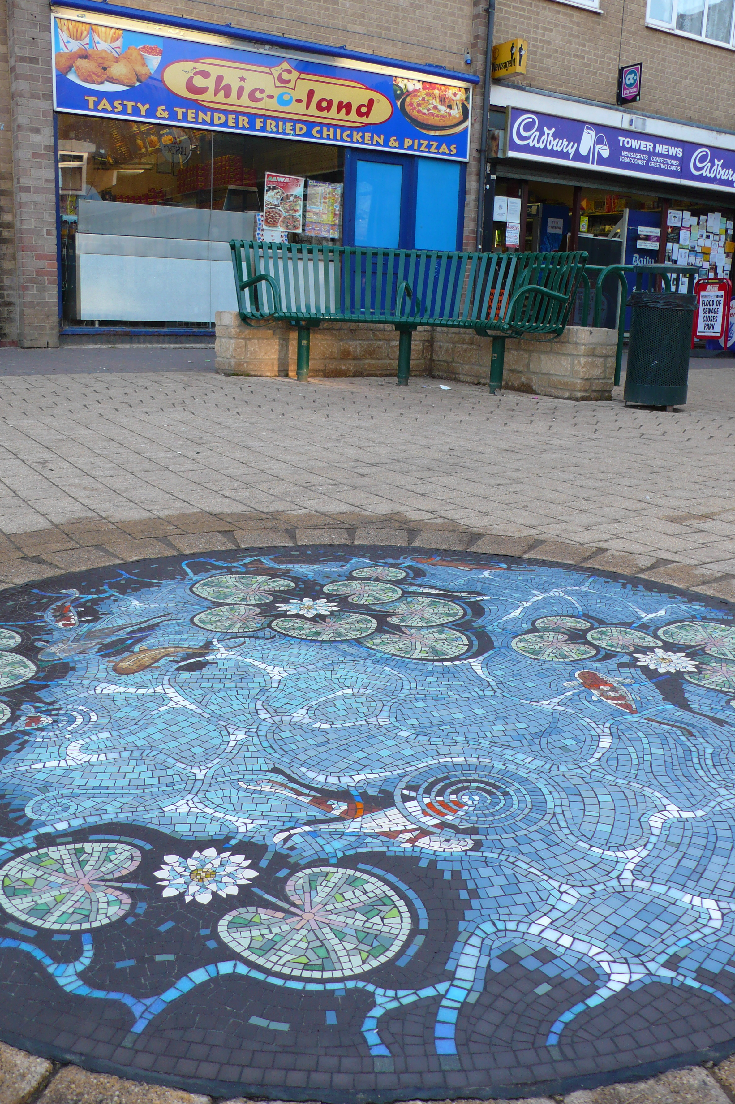 Ceramic floor mosaic artwork by artist Gary Drostle in Carterton Tower Square, made in 2008